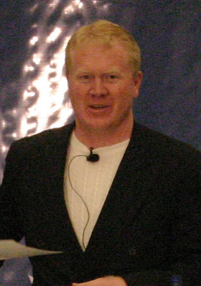 Karl Mecklenburg, former NFL defensive player for the Denver Bronco's. (retired 1995). Inducted into the Denver Bronco's Ring of Fame and the Colorado Sports Hall of Fame for his career achievements, 6 Pro Bowl and 3 Super Bowl appearances